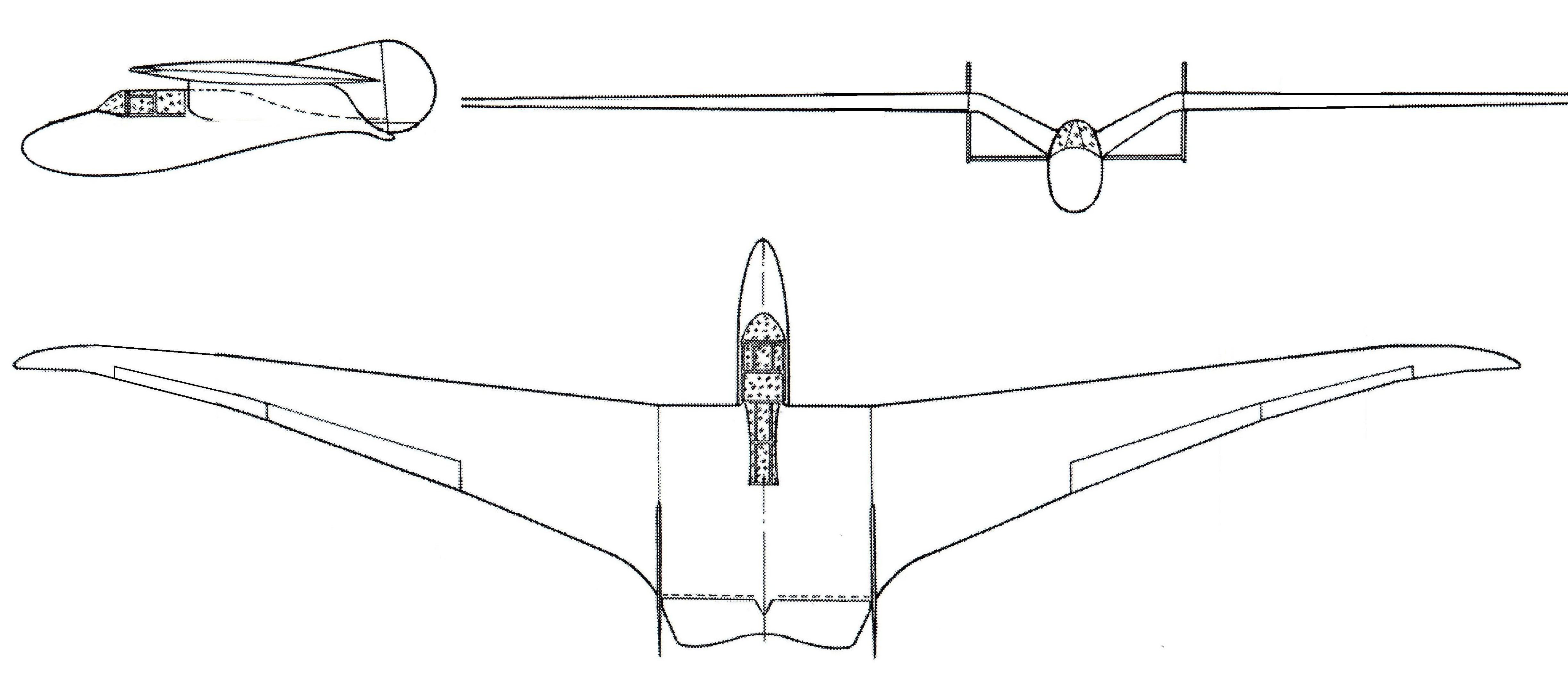 Drawing airframe БП-3